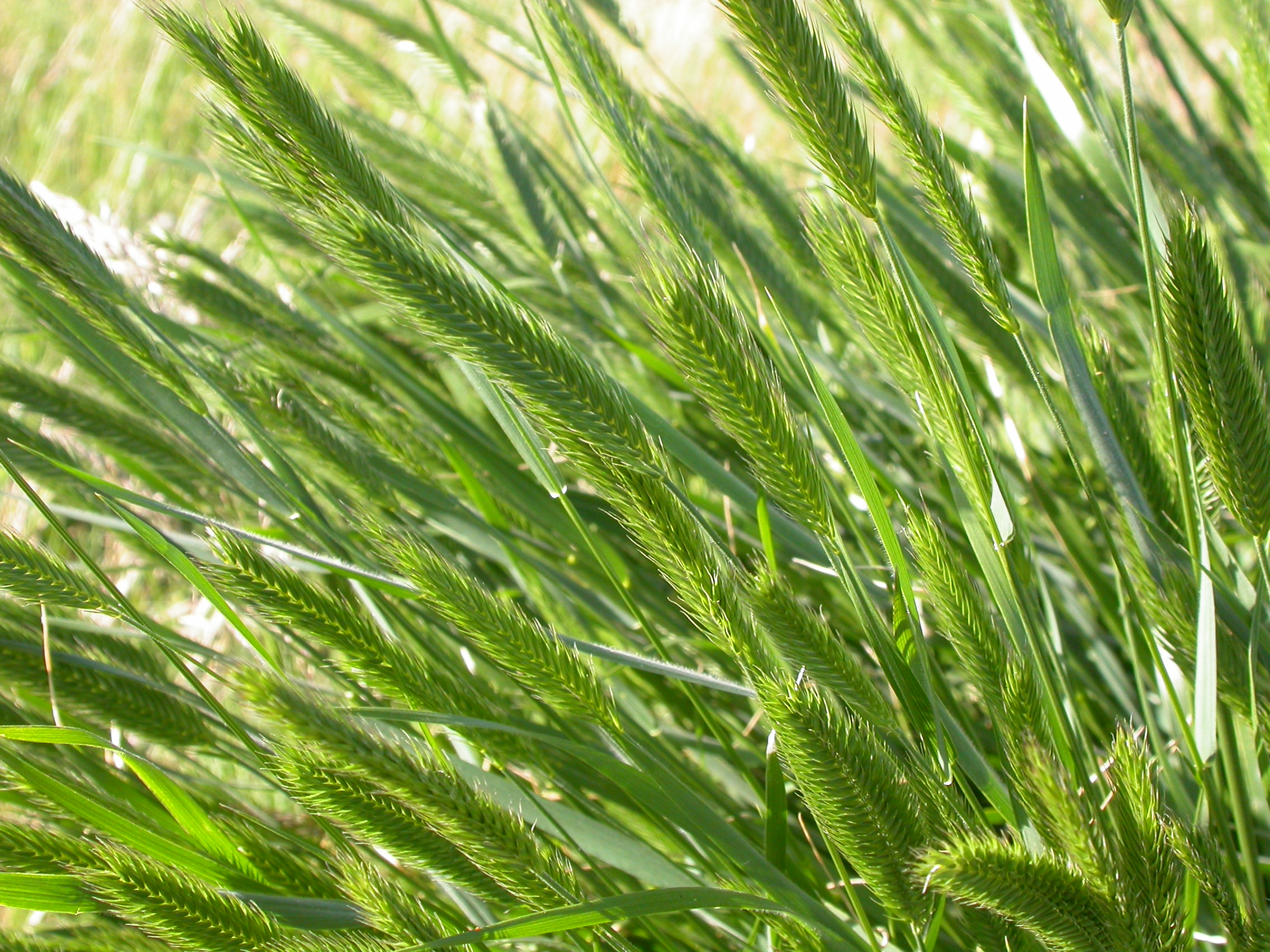 The inflorescence of crested wheatgrass is distinctive in its spikelets that diverge at wide angles and from short internodes.